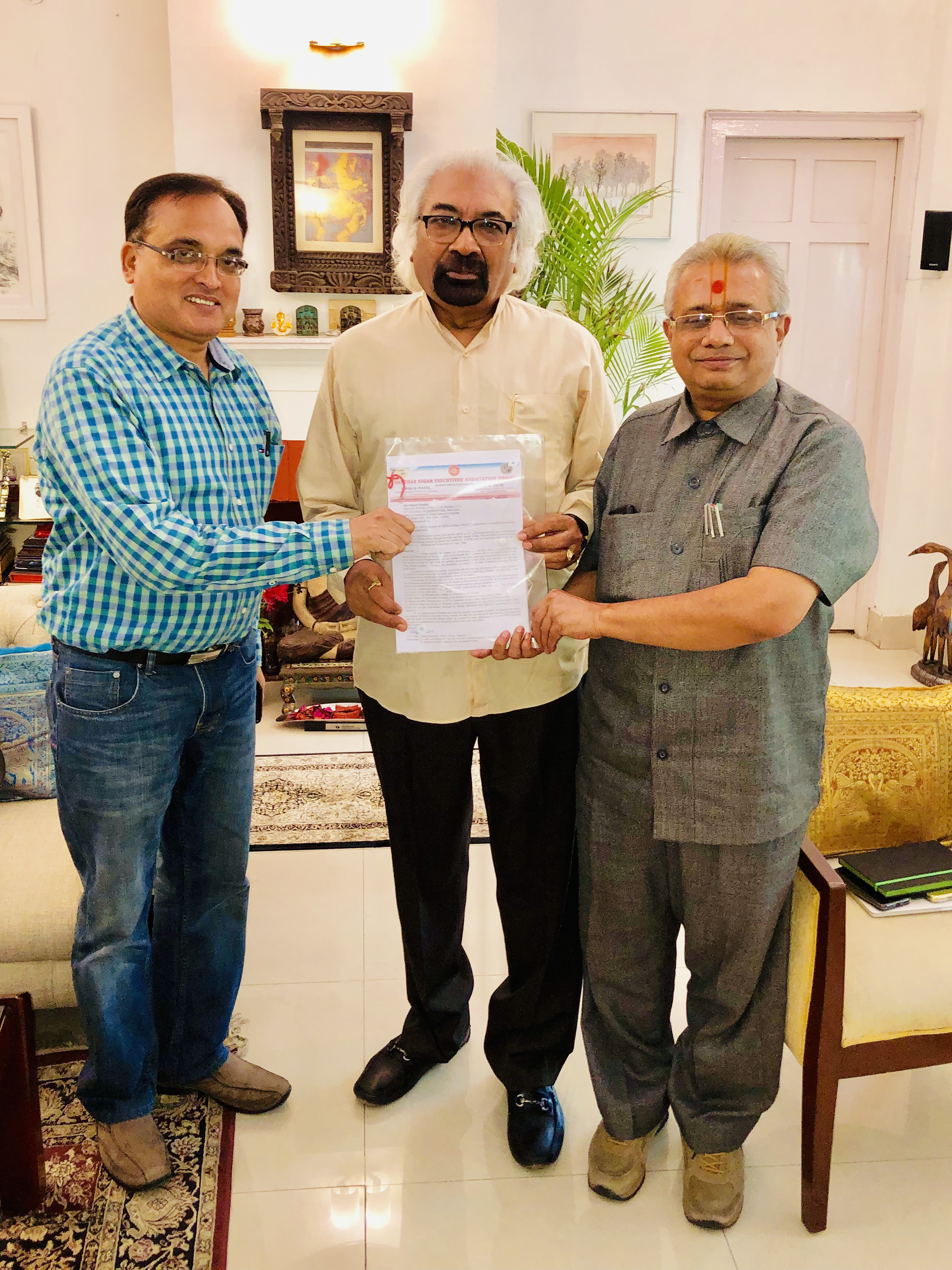 Receiving a letter from SNEHA (Sanchar Nigam Executives' Association on 1st May.